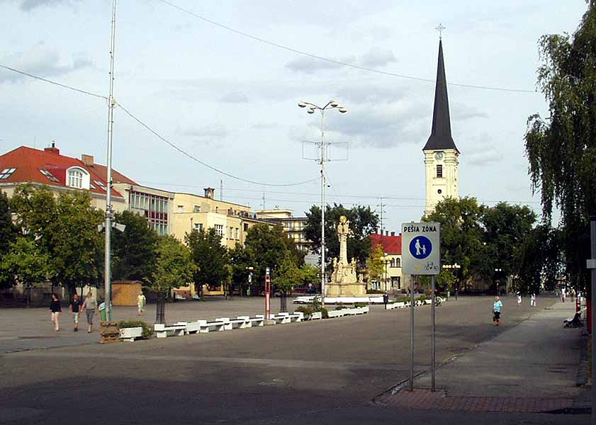 The Main Square in Nové Zámky